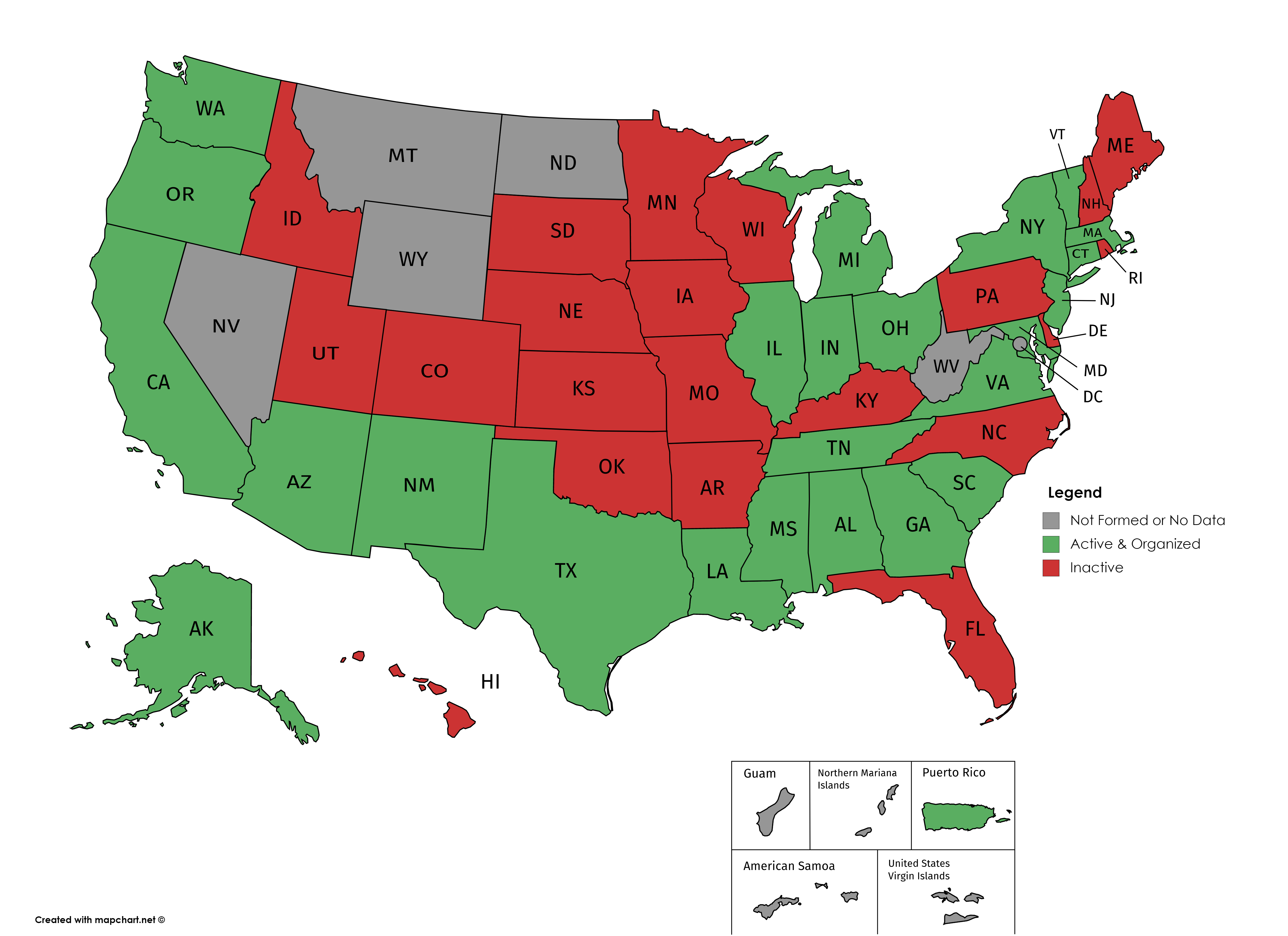 This map depicts which state governments exercise their right to maintain a State Defense Force under the authority of Title 32, Section 109, of the United States Code. Most states depicted in red (inactive) had an active State Defense Force during World War I, World War II, or the Korean War. State Defense Forces only operate within their state and assist with disaster response efforts, missing person searches, and other duties assigned by their Governor.